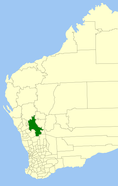 Location of the Local Government Area in Western Australia